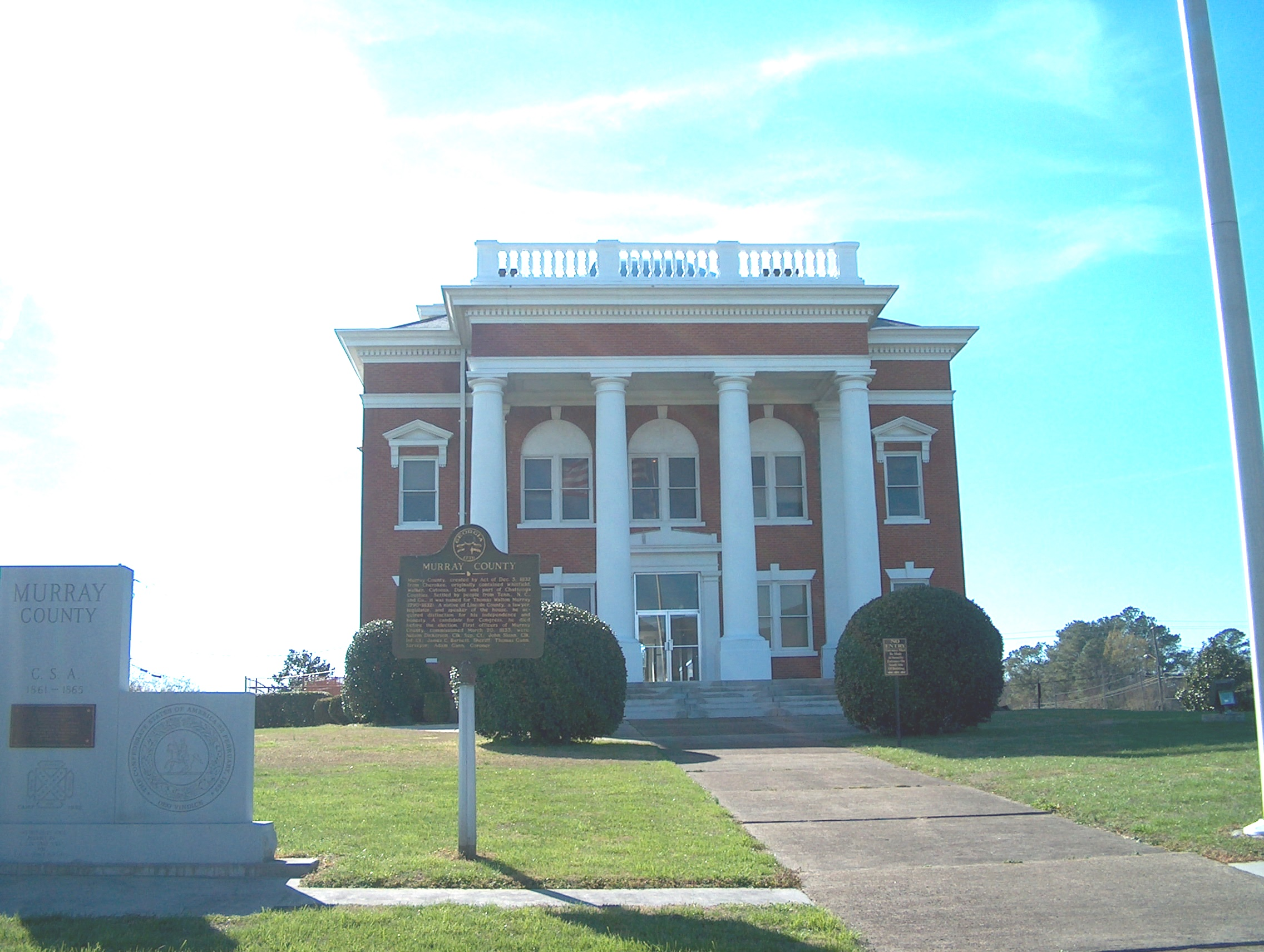 Murray Courthouse in Chatsworth, Georgia (photoed by Cculber007)